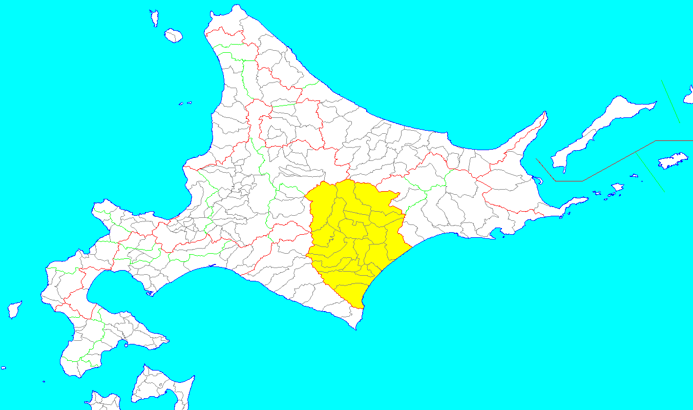 area of Tokachi provinces of Hokkaido in Japan(1869/08/15)